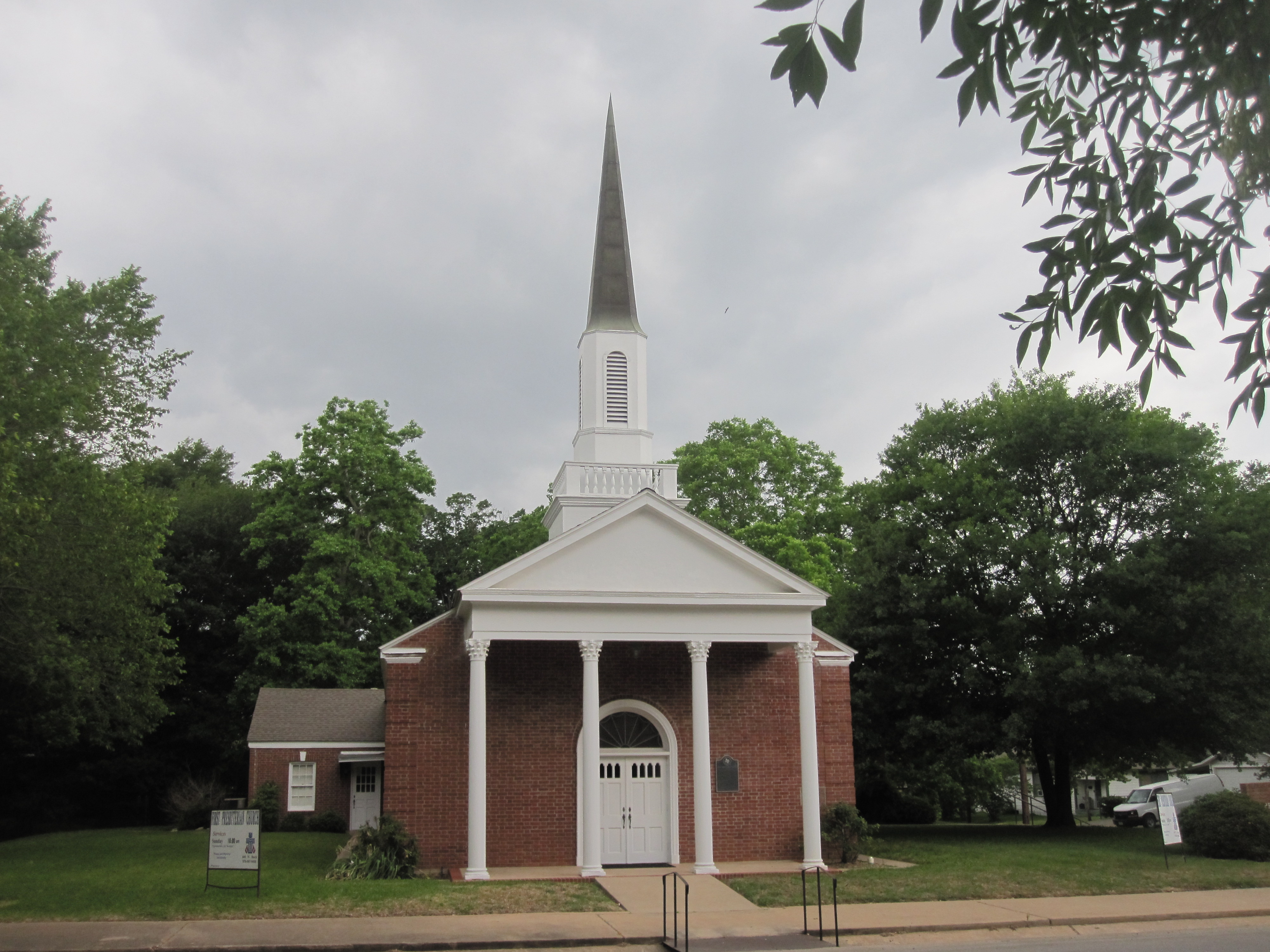 I took photo with Canon camera.